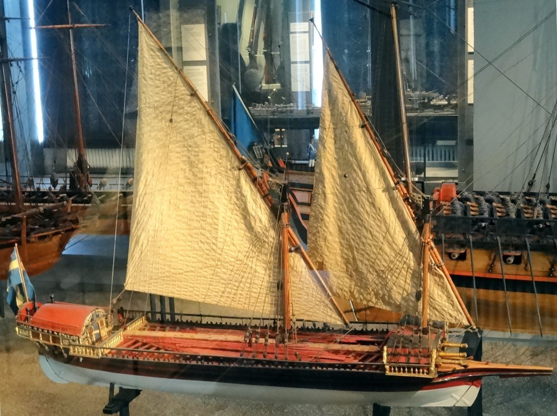 Model of a new type of galley for the Swedish navy, made i France 1715. The model have 28 pairs of oars, three heavy guns on the forecastle and rudders on both stems. The Maritime Museum, Stockholm Sweden.